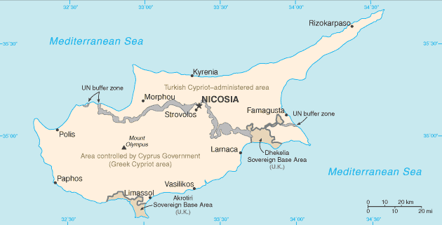 Cyprus map from CIA World Factbook 2004, converted from original GIF format